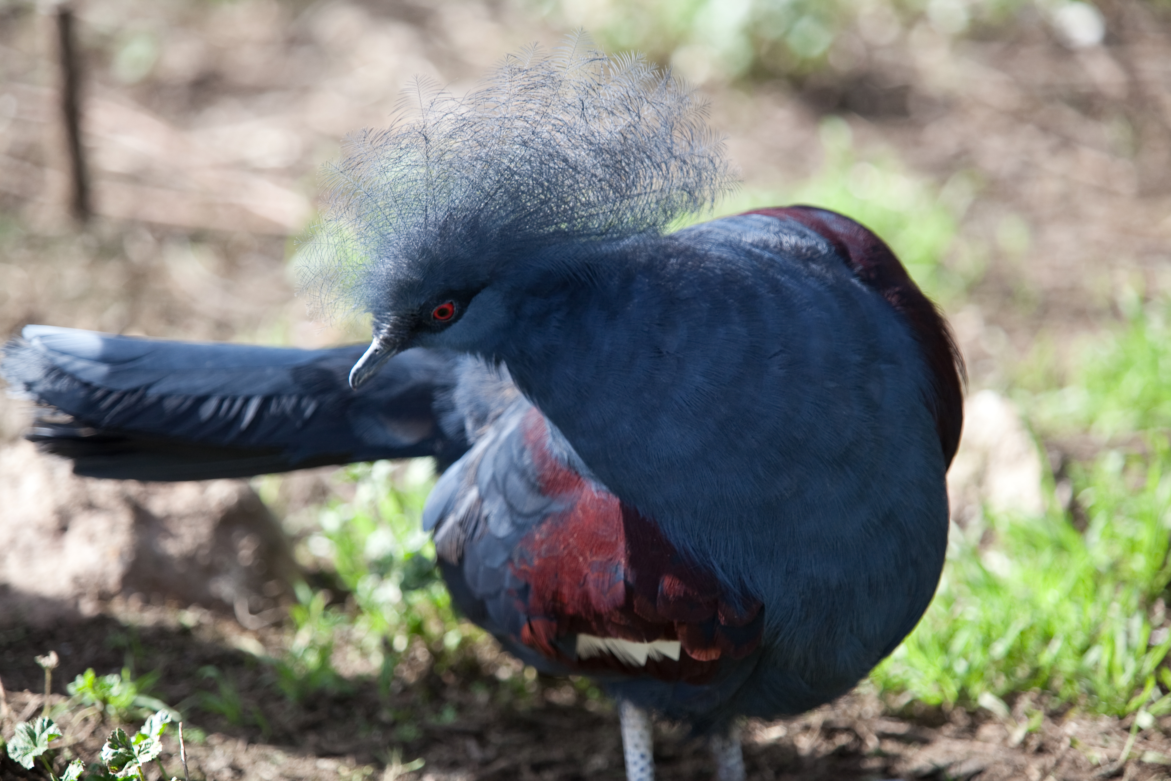 A Western Crowned Pigeon (also known as the Common Crowned Pigeon or Blue Crowned Pigeon) at Safari West Wildlife Preserve, California, USA.